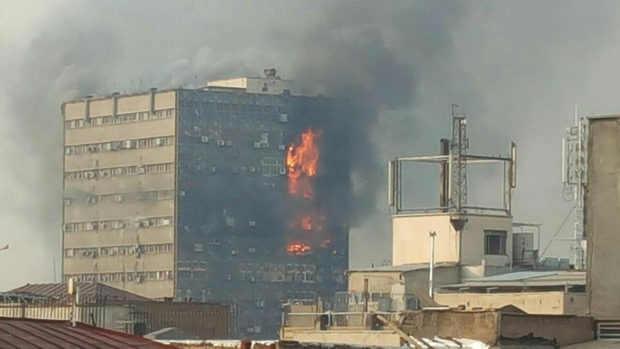 Plasco Building in Tehran which clopssed due to blaze in 19.01.2017